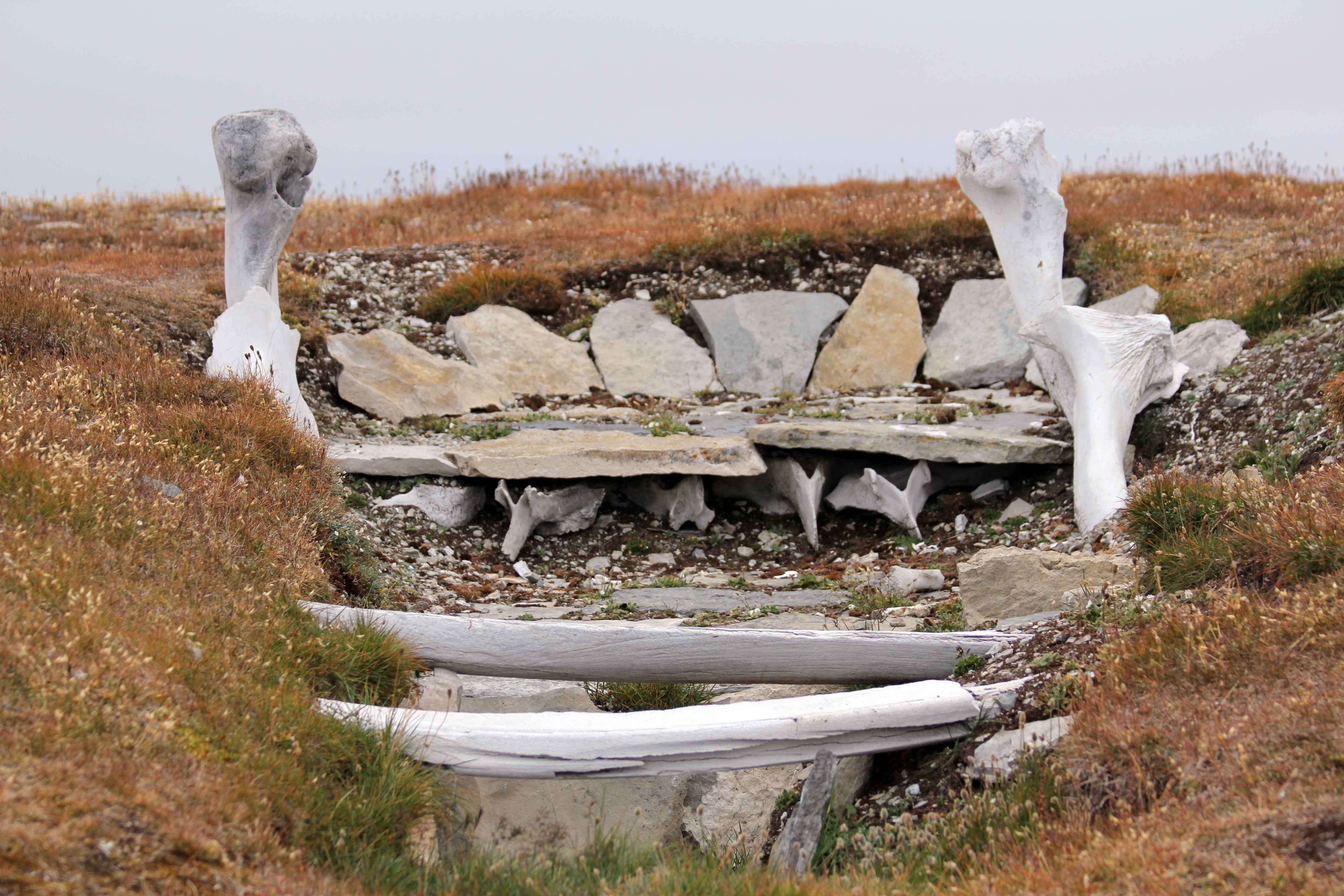 Over 1,000 years ago, an incredible polar journey began. The ancestors of modern-day Inuit left northern Alaska and migrated eastward, across the Arctic to Greenland. This photo was taken near the community of Resolute where about half a dozen of these houses are scattered. I believe that there had been some partial reconstruction but they are not in a museum, they are actual remnants of homes and they are left to the elements.